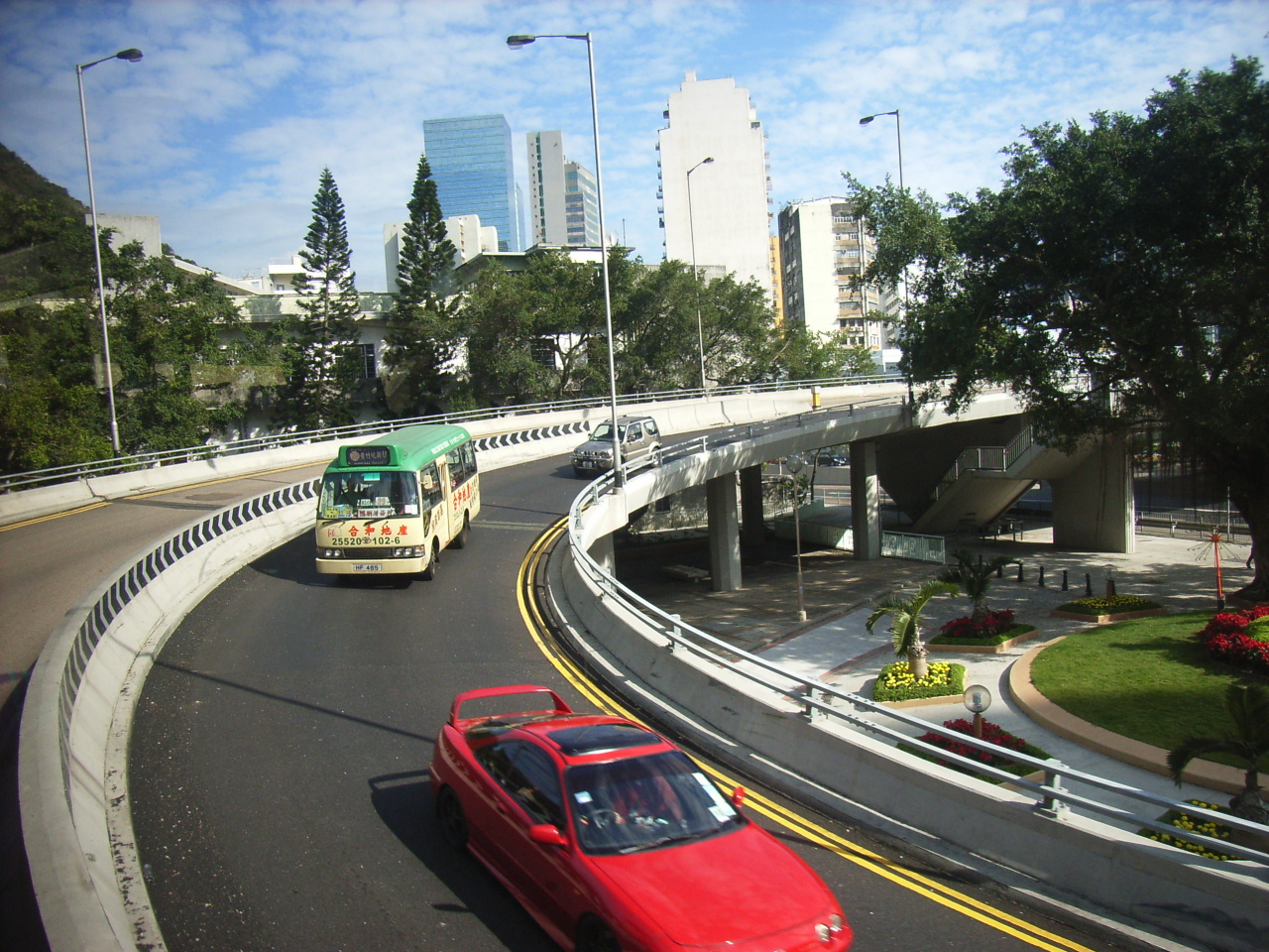 Ap Lei Chau Bridge, Hong Kong 鴨脷洲大橋 Photographer:User:Apade1872